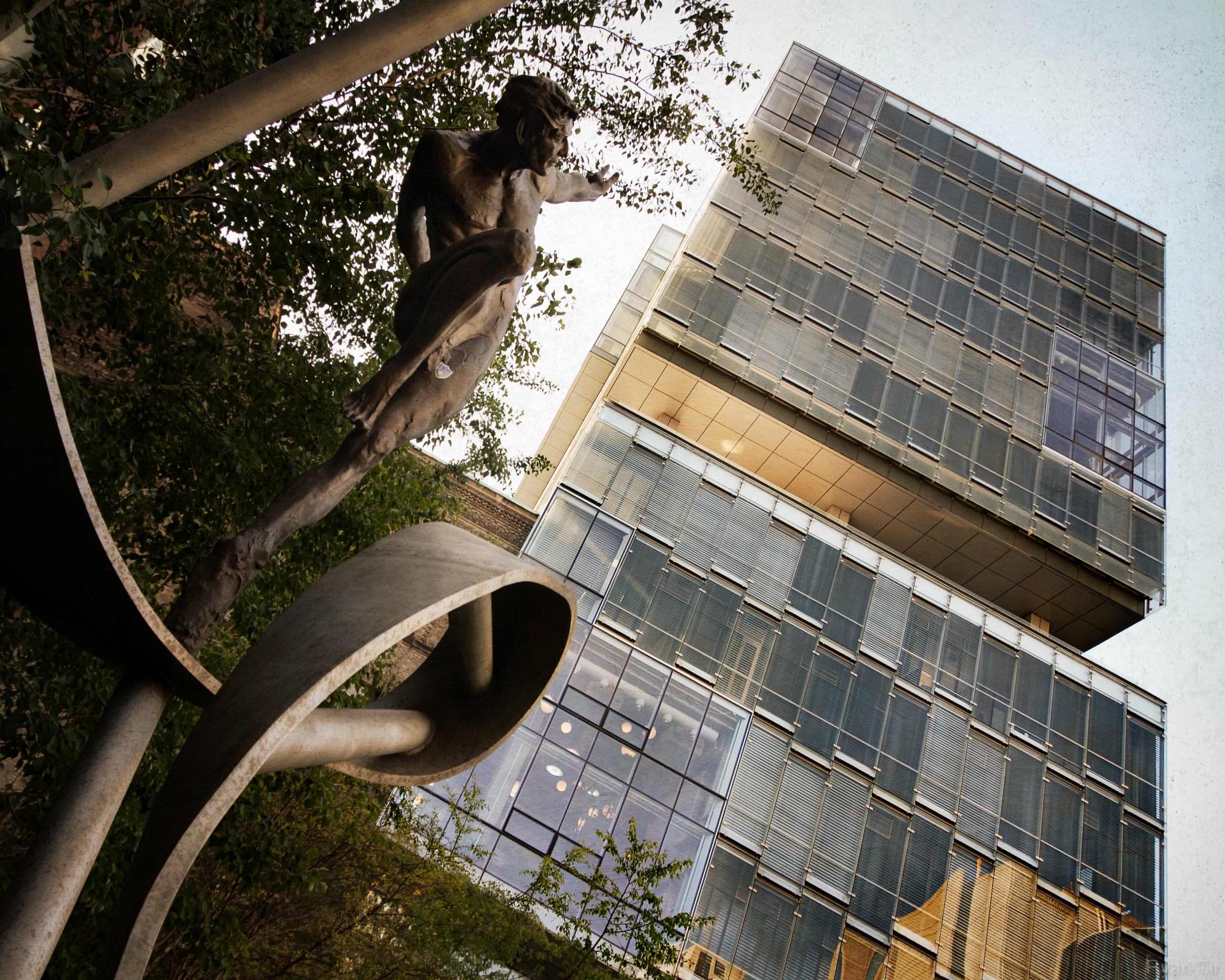 Terrence Donnelly Centre for Cellular and Biomolecular Research